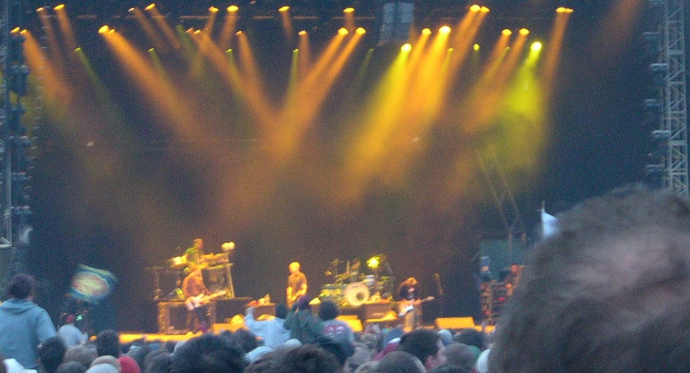 The Offspring at Leeds Festival in 2004.